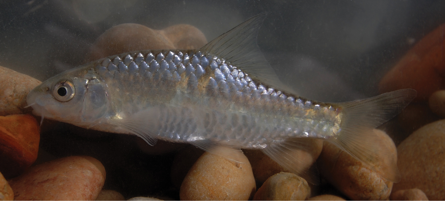 Carasobarbus sublimus, live specimen from Rūdkhāneh-ye Fahlīān.